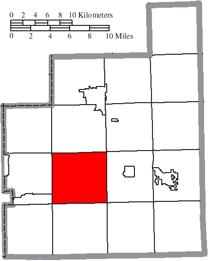 Map of the municipal and township boundaries of Geauga County, Ohio, United States, as of the 2000 census, with the location of Newbury Township highlighted. Township borders are shown only in unincorporated areas in order to differentiate incorporated and unincorporated areas more clearly.